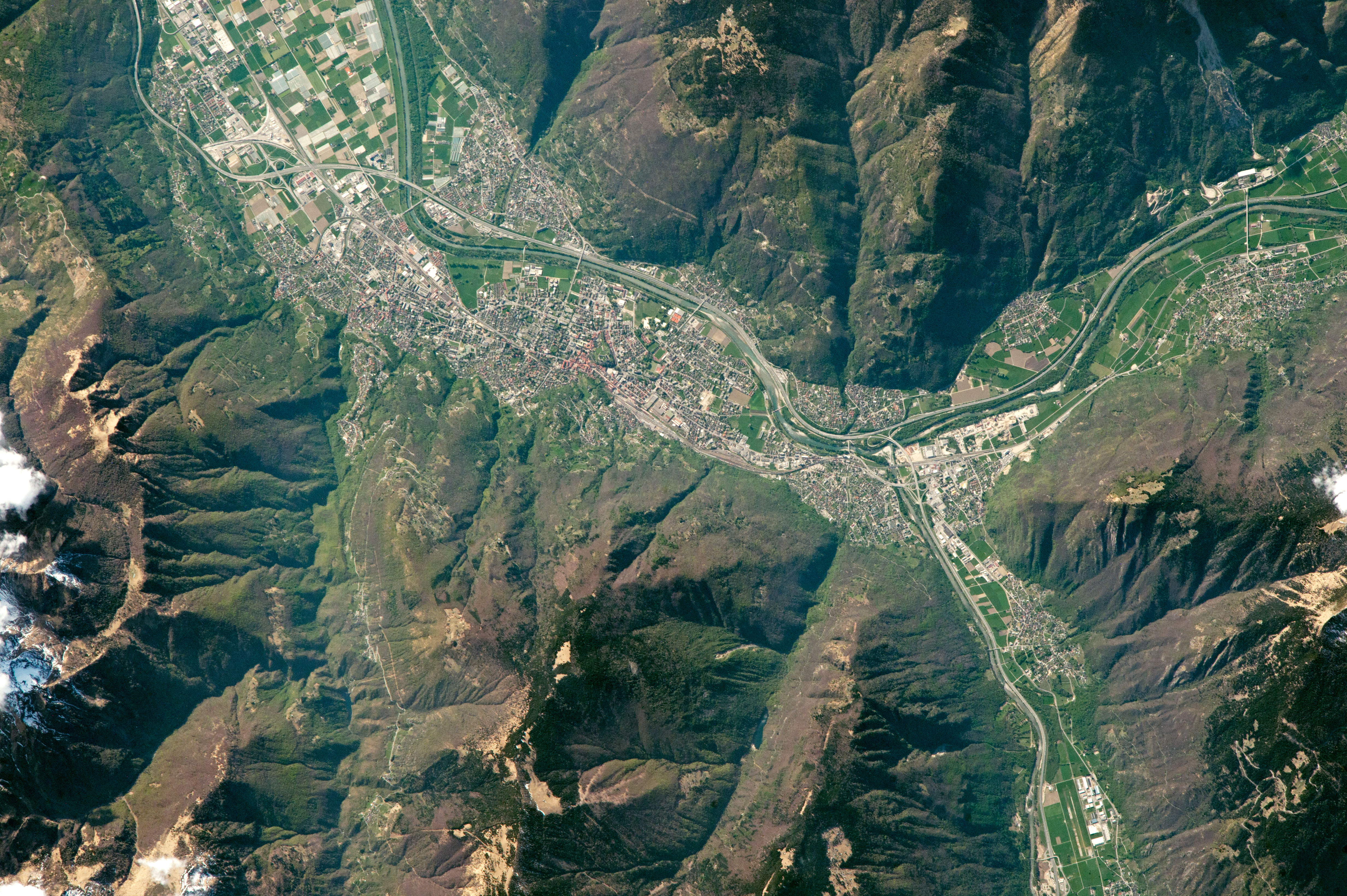 An astronaut aboard the International Space Station took this photograph of the Ticino River as it winds through Bellinzona Commune in the Lepontine Alps, Switzerland. The afternoon sunlight highlights the western mountain faces and contrasts with the mountain shadows, creating image depth and dimension. Settlements like this one are typical of the Alpine foothills because of the flat land in the valley. Bellinzona City is the capital of Canton Ticino, the Italian-speaking region of Switzerland. The Ticino River empties into Lake Maggiore, the largest lake in southern Switzerland, approximately 14 kilometers (9 miles) from the city. Switzerland is a federal state, meaning powers are divided amongst the confederation, cantons, and communes. The communes are the smallest political entity, but they have their own parliaments. Communes will sometimes consolidate regulation of schools and welfare, energy supplies, roads, local planning, and local taxation. Prior to 2017, there were at least fifteen communes identifiable in this image. On April 2, 2017, an aggregation combined smaller municipalities into one commune named Bellinzona. The number of communes in Canton Ticino have been reduced by half in the past eight years. There are three UNESCO World Heritage sites in Bellinzona: Castelgrande, Montebello, and Sasso Corbaro. A defensive wall (referred to as the murata) links the castles and recalls the Medieval period, when this tactical Alpine pass was protected from outsiders traveling to northern Italy.